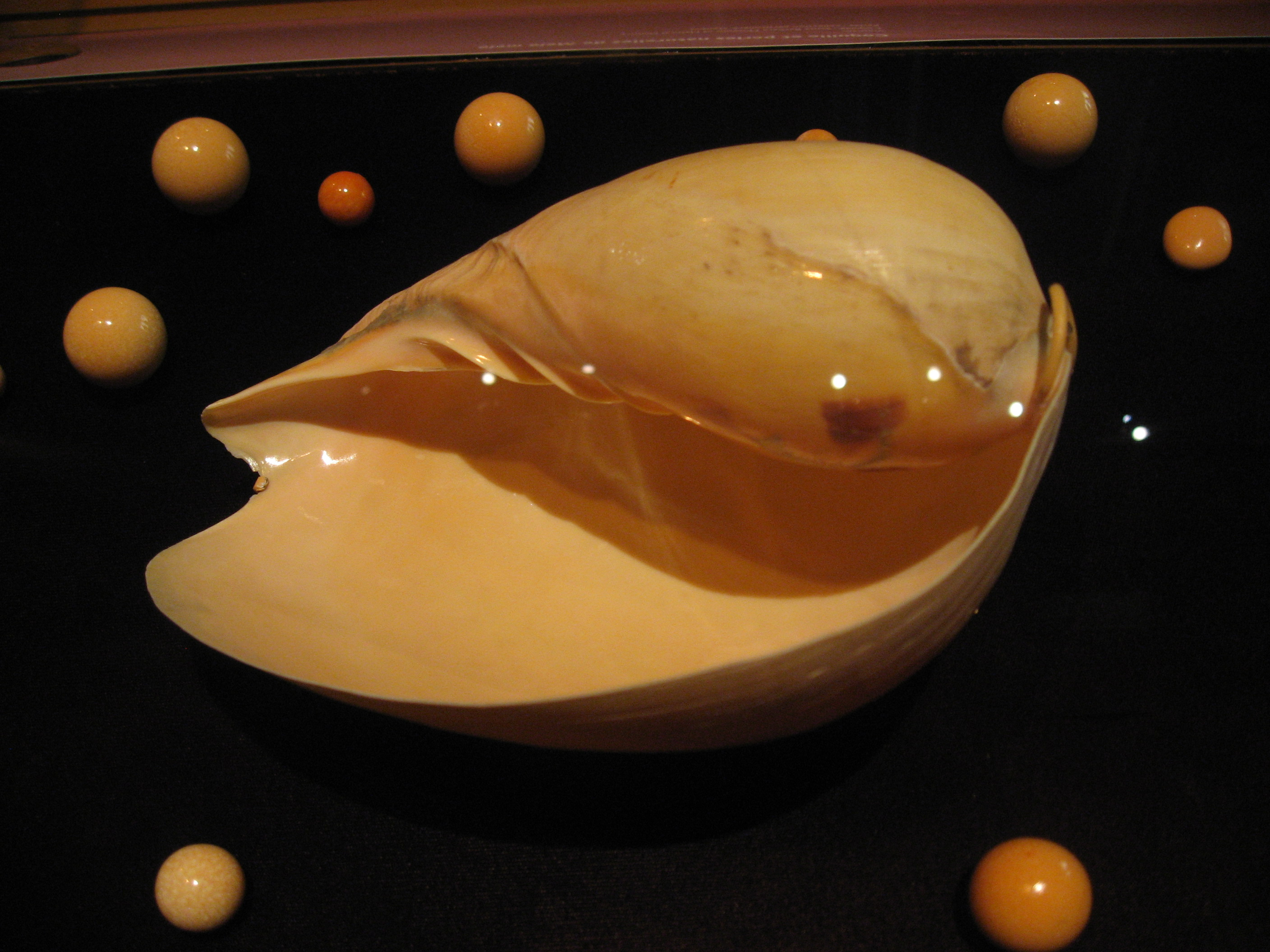 Melo melo with its pearls in Exposition temporaire: Perles